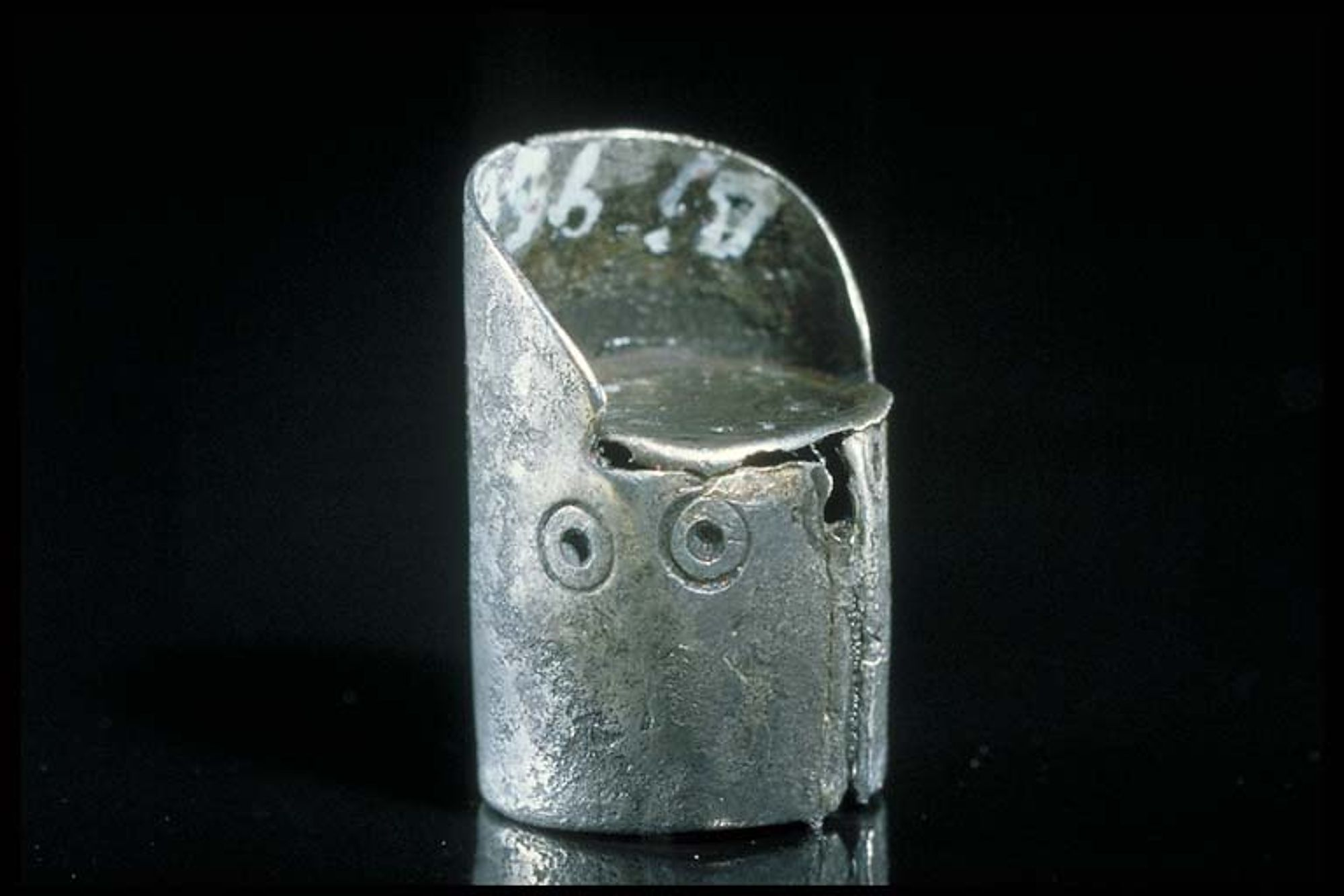 Bowlar chair pendant, from grave in Birka Björkö Sweden